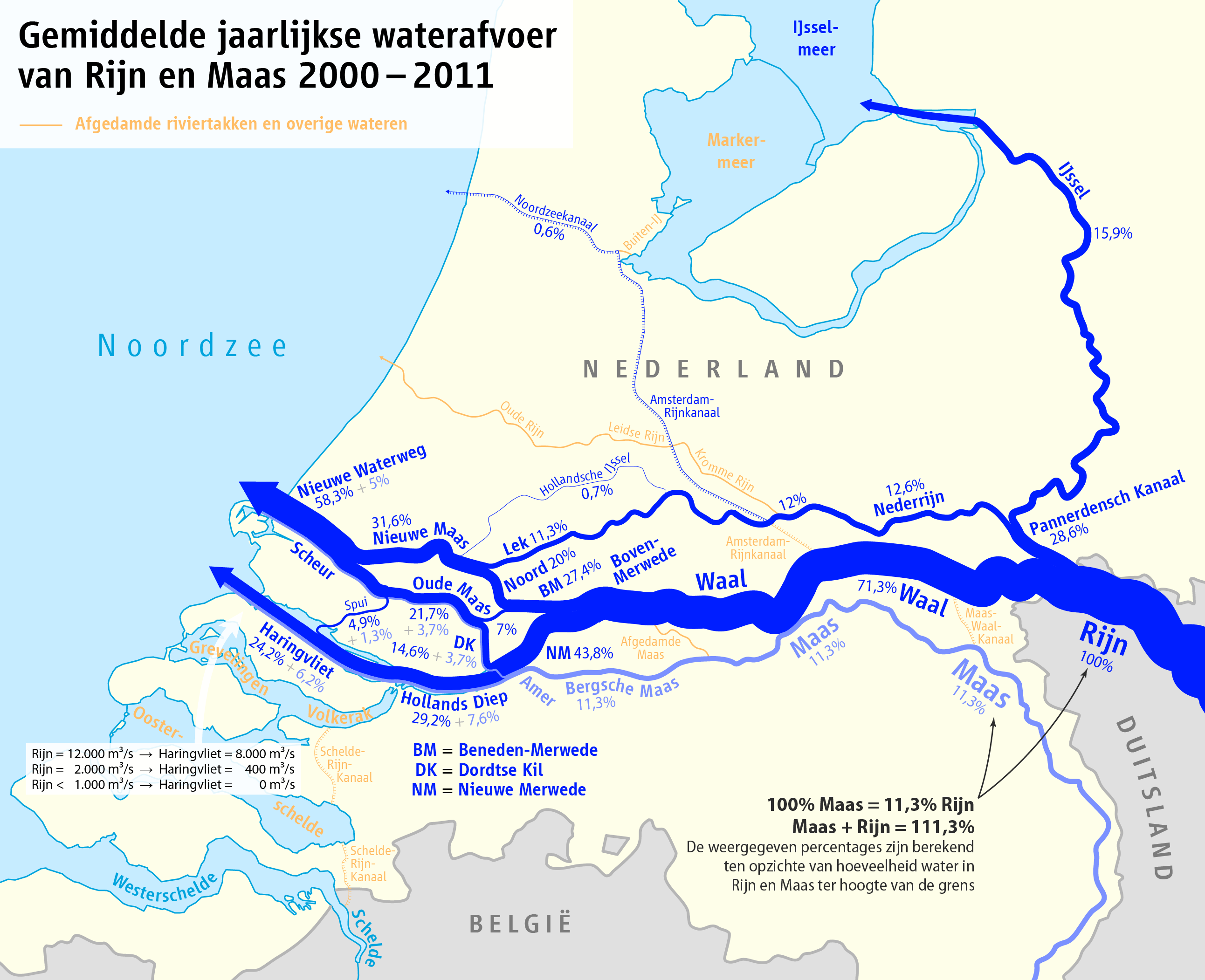 Map of the partition of Rhine and Meuse water among the various branches of their delta 2000-2011